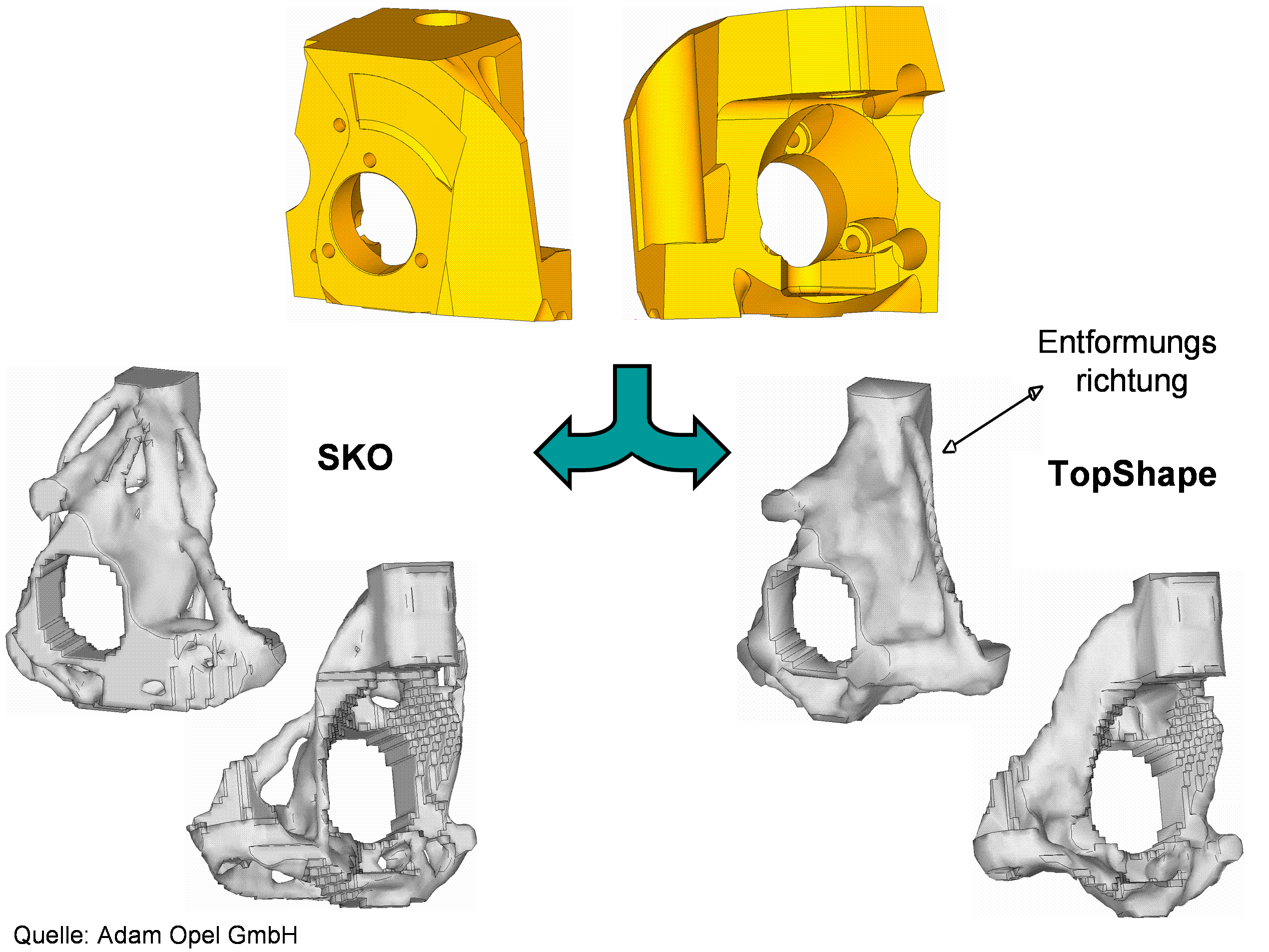 application TopShape, pic 1